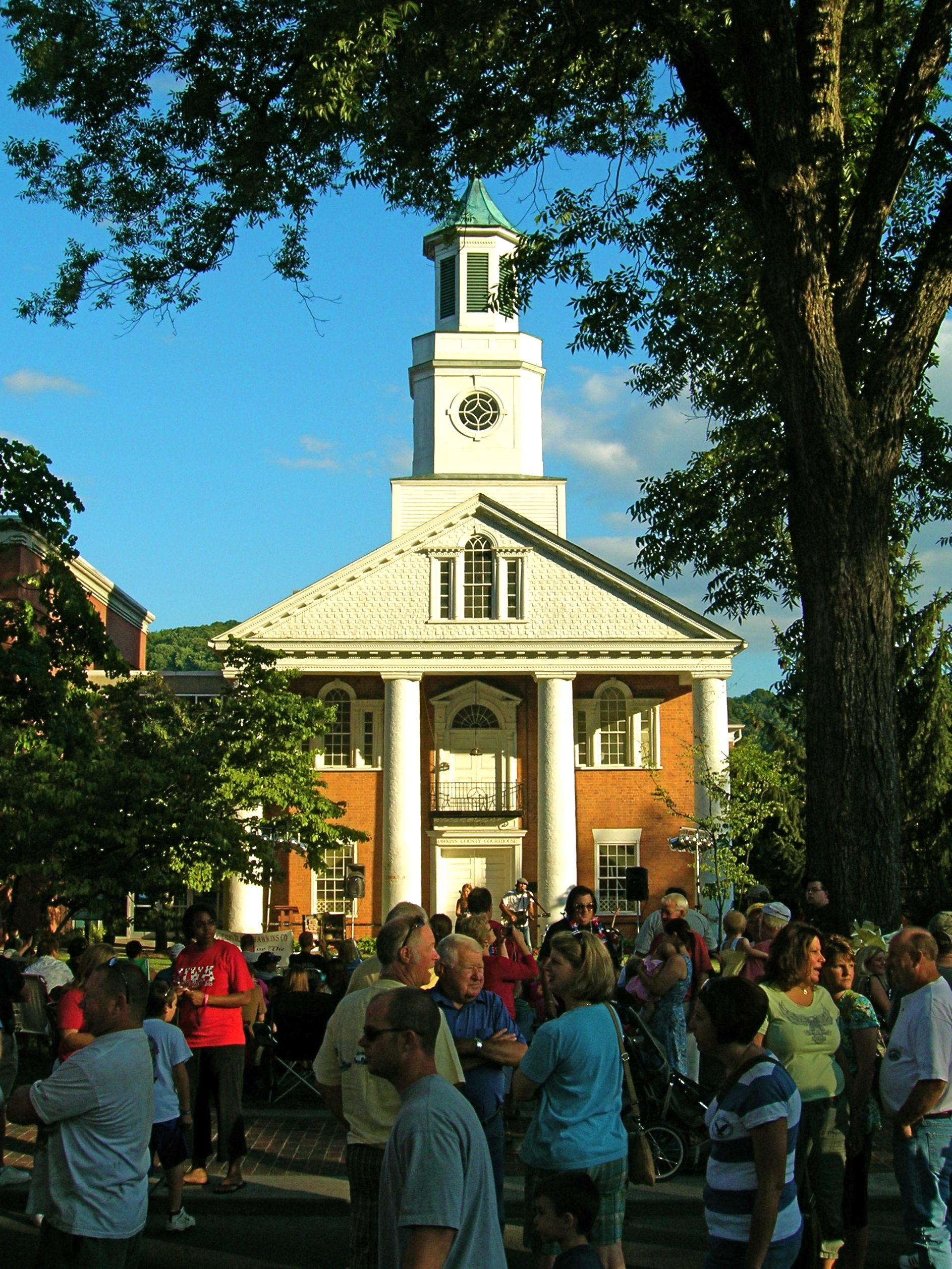 Hawkins County Courthouse, during the July 2009 Cruise-In on the Square